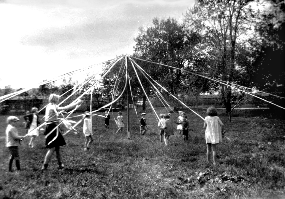 "May Dance" celebrated in the context of the Victoria Day (the Queen's Day). Children dance around the pole on which the ribbons are attached.